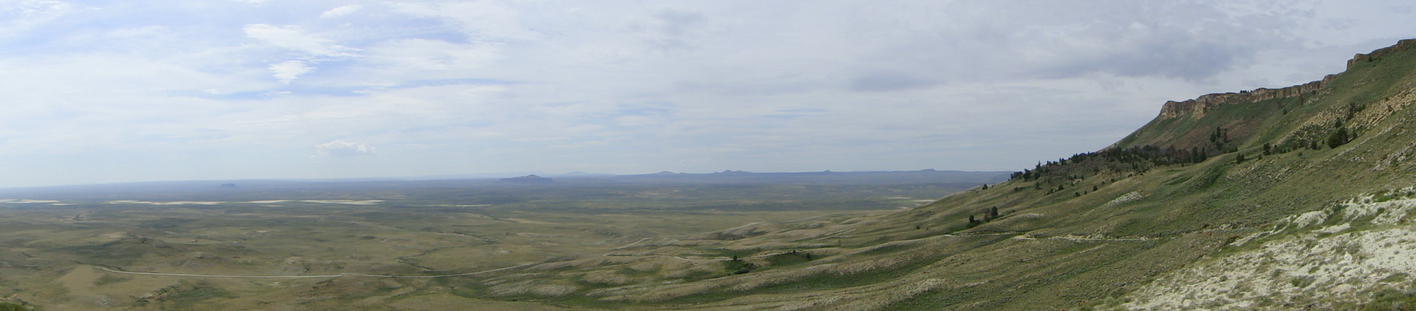 Looking south onto the Red Desert (Wyoming) from near the crest of Steamboat Mountain.